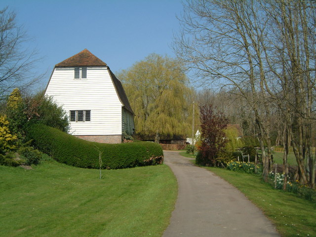 Furnace Mill, near Lamberhurst Nowadays, very much an up-market residence rather than a working mill!